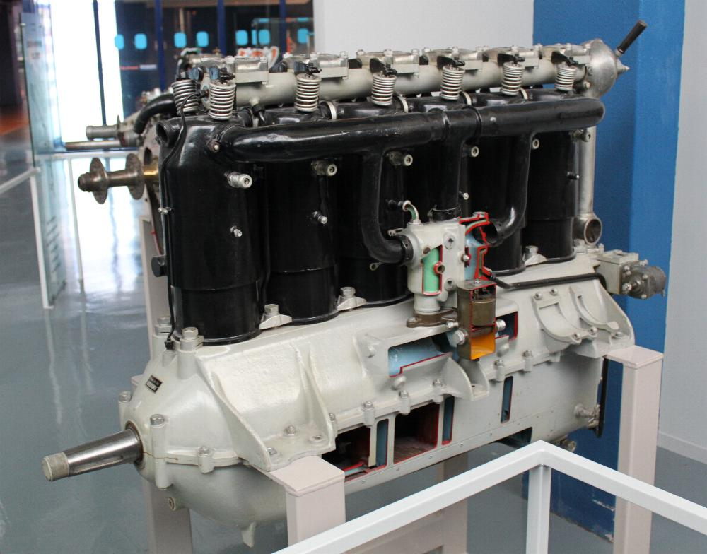 Aircraft engine BMW IIIa, Germany 1918